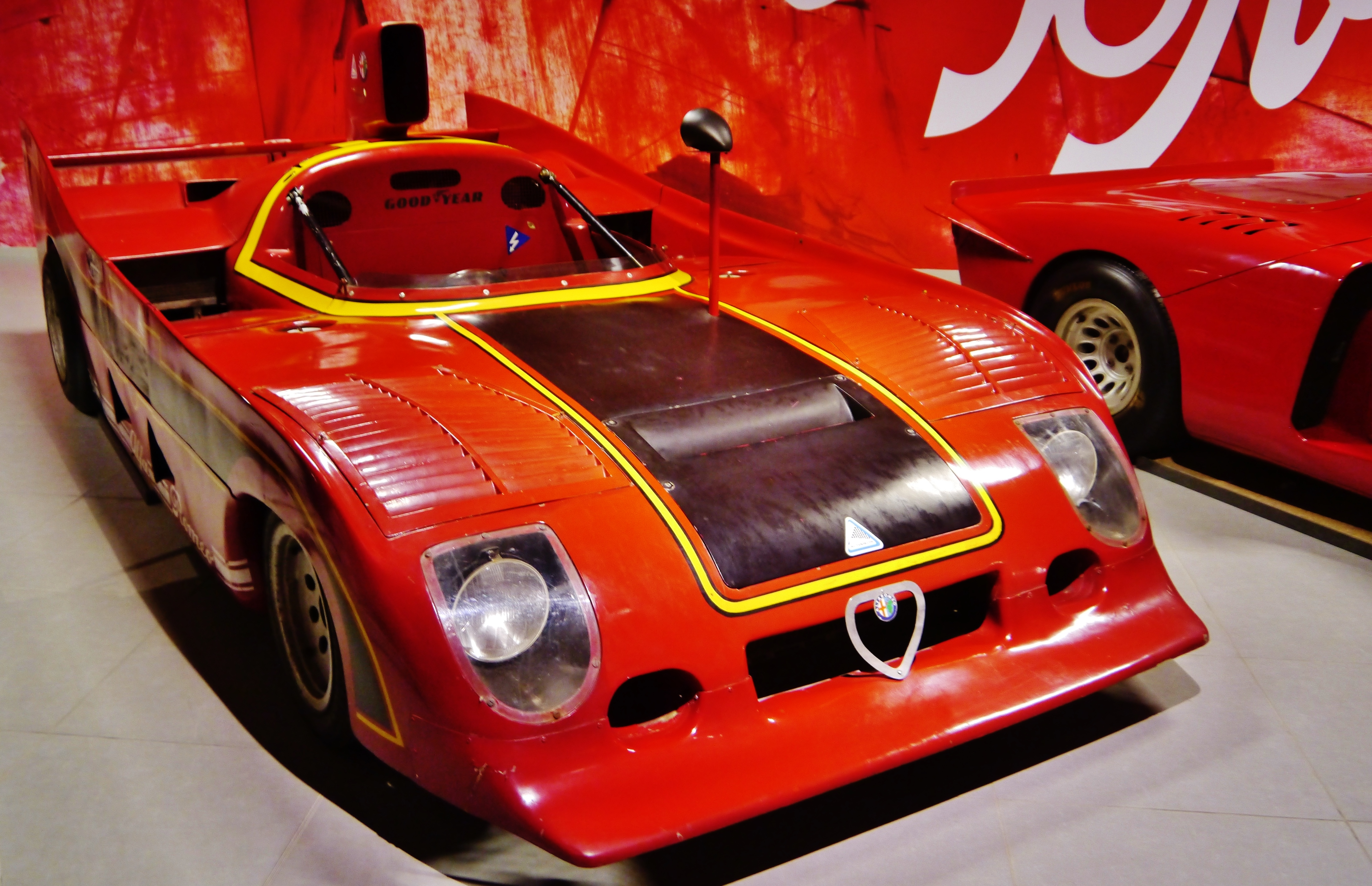 National Automobile Museum/Louwman Museum, The Hague, Province of South Holland, Netherlands